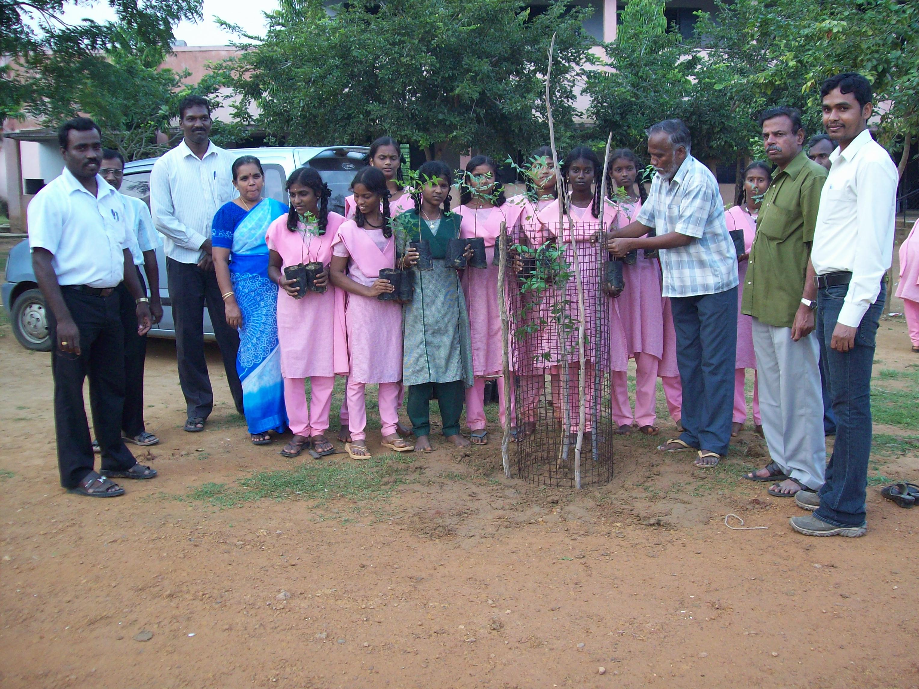 Global warming awarness camp conducted by M. Raghupathi, at Fathima girl's school, Jayamkondam